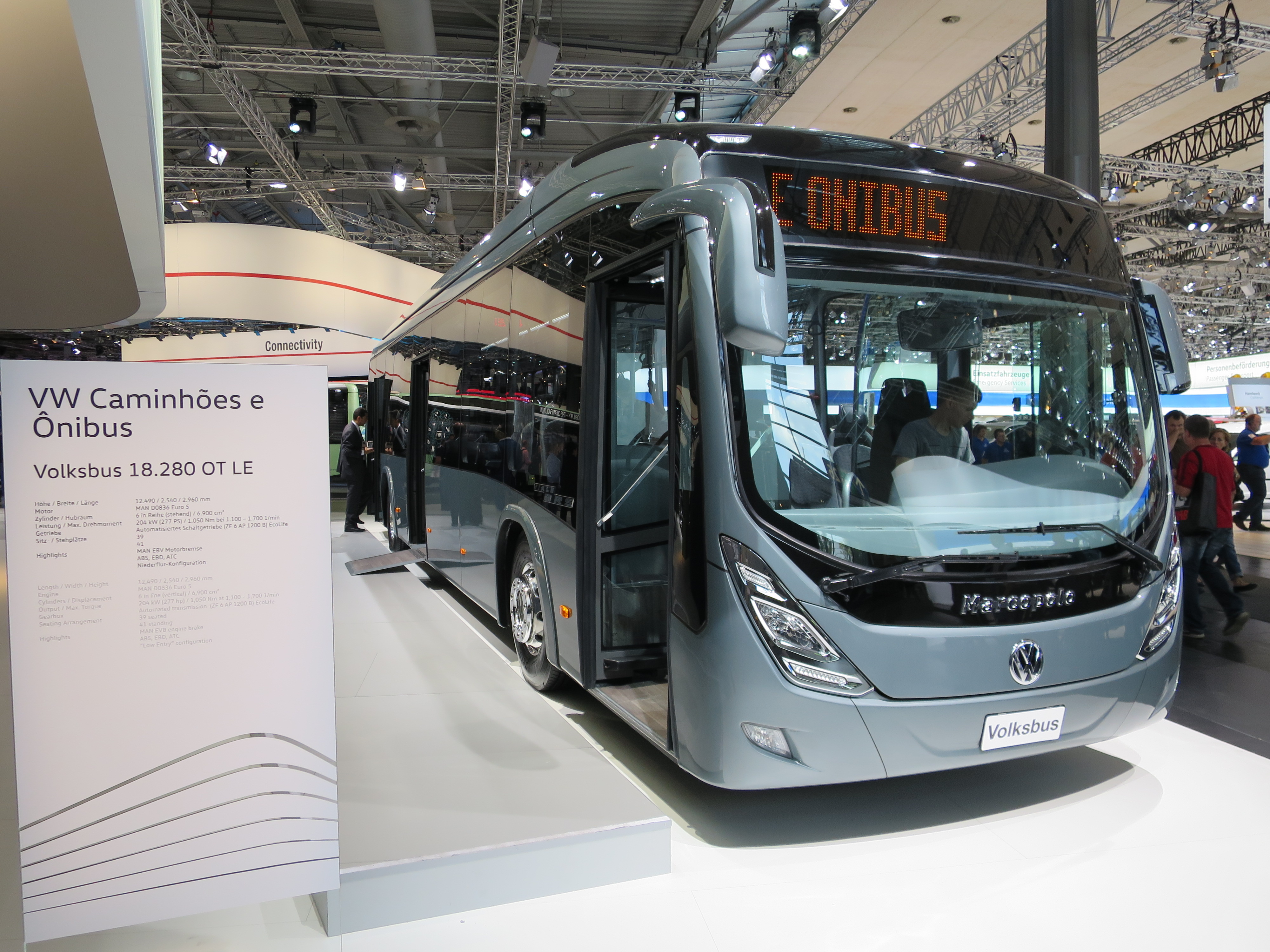 The making of this document was supported by Wikimedia Polska Association, within Wikigrant no. WG 2016-35. Volksbus 18.280 OT LE